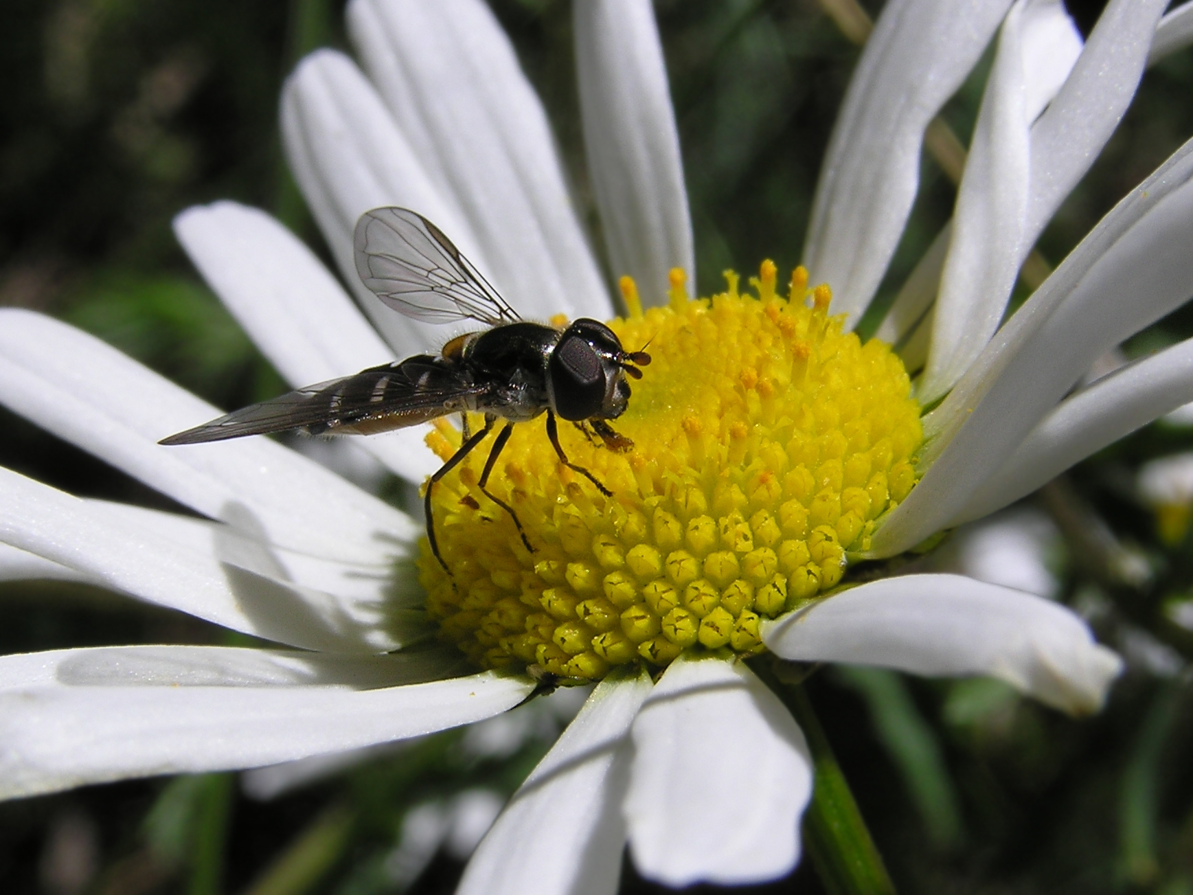 Small striped hoverfly on ox-eye daisy. Wellington, New Zealand.